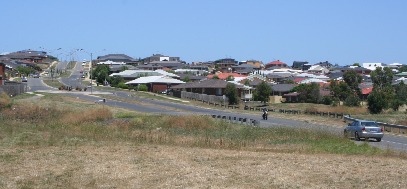 Overview of Waurn Ponds - Geelong, Victoria, Australia